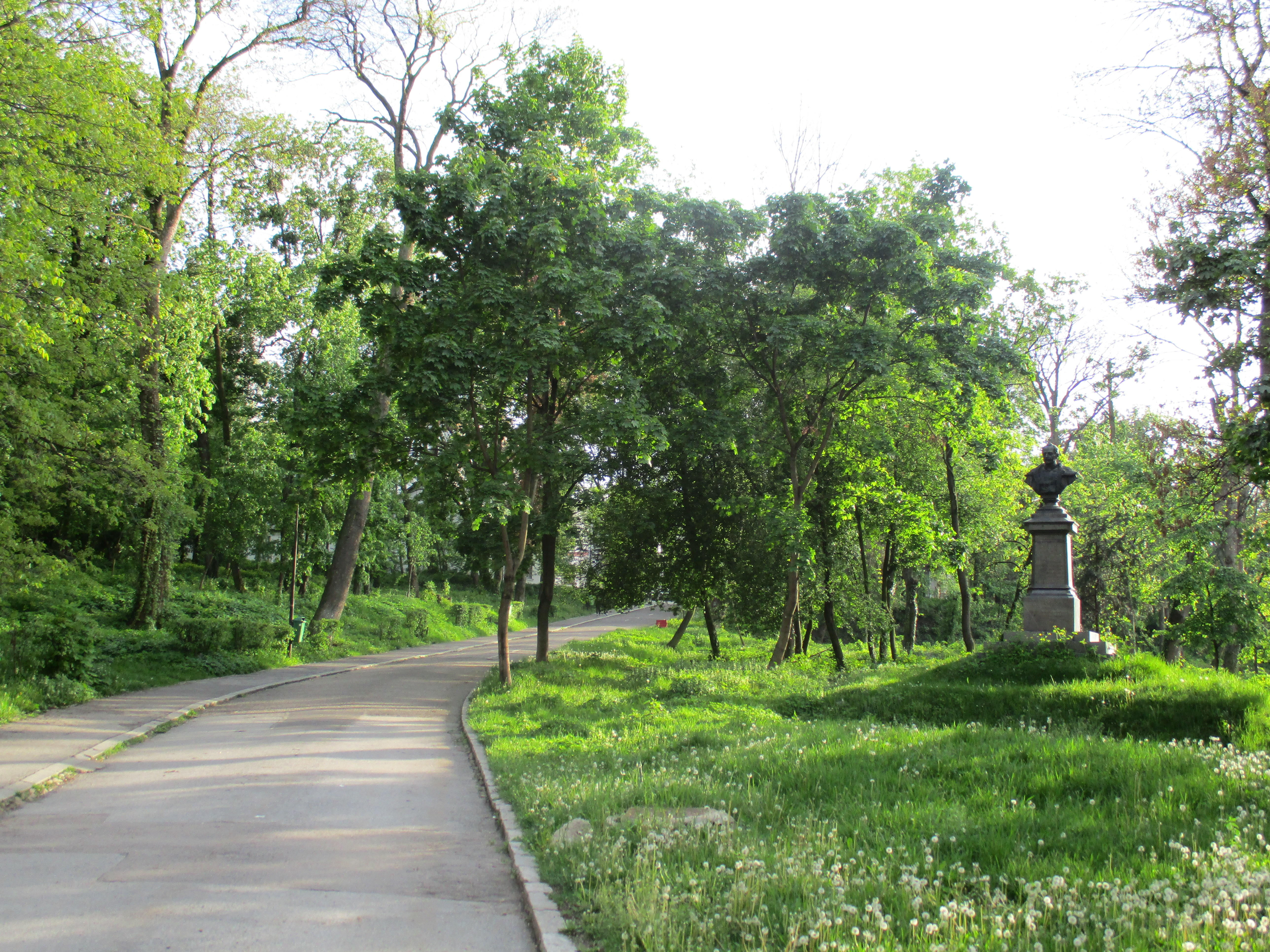 Entrance in Mikó Garden Cluj-Napoca